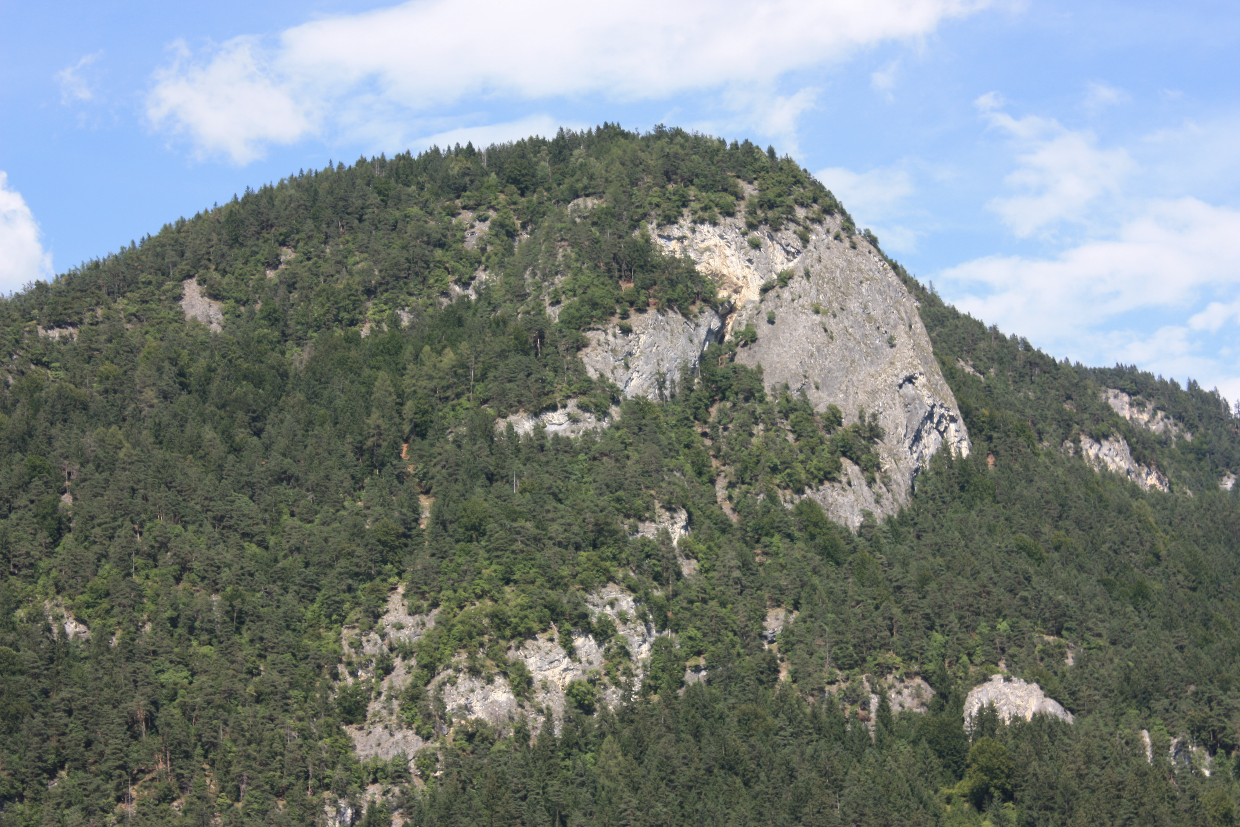 Pleschwand, Gemeinde Weißenstein in Kärnten, Bezirk Villach Land, Österreich, EU Locality: Weißenstein Community:Weißenstein